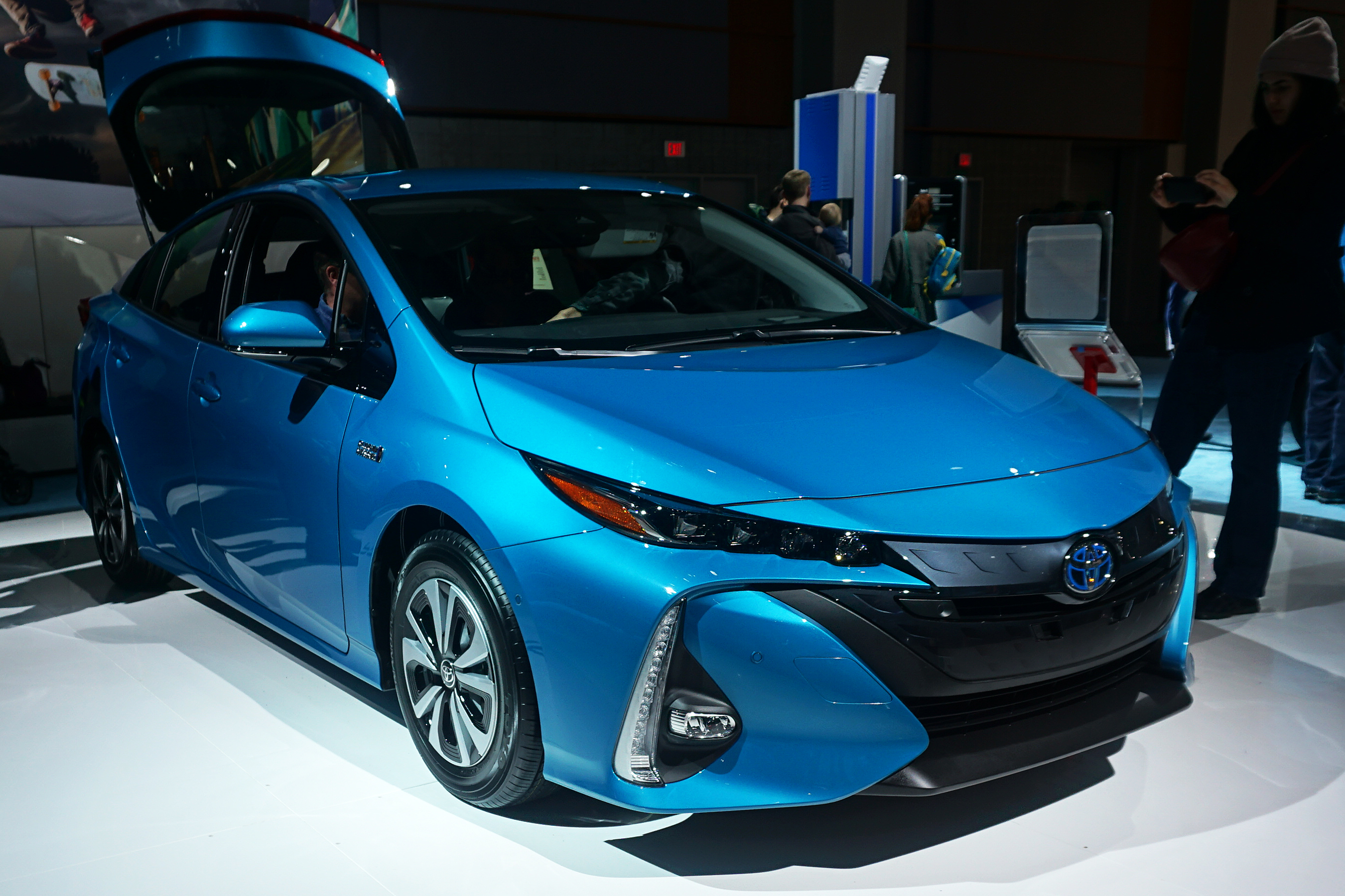 2017 Toyota Prius Prime (plug-in hybrid) at the 2017 Washington Auto Show, D.C., U.S.